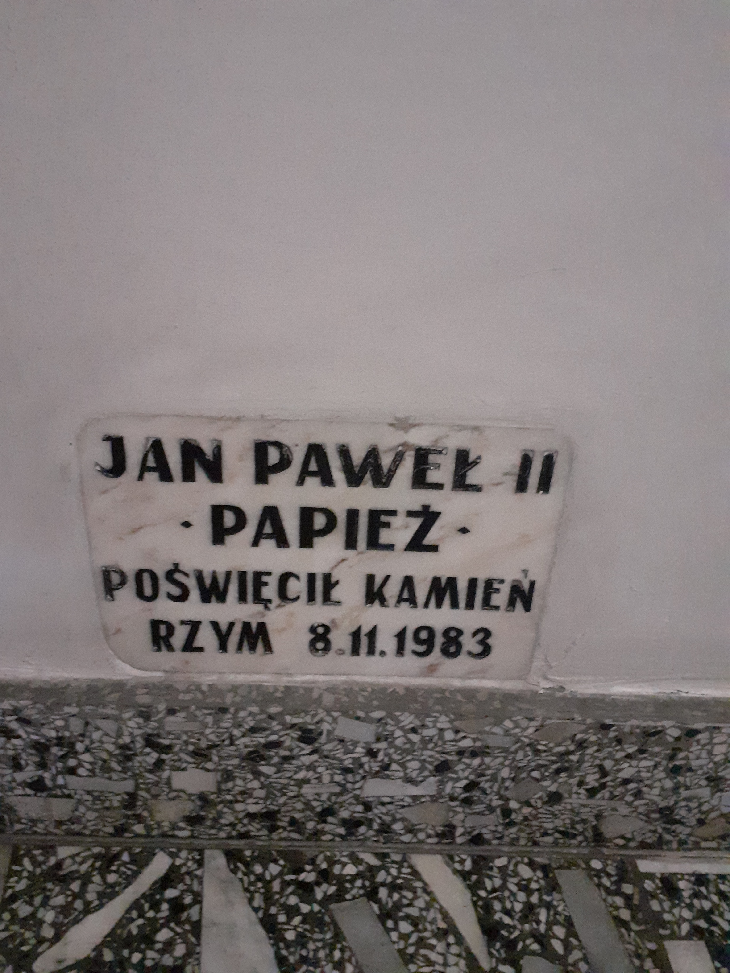 Zdjecie kamienia z grobu Józefa Kręckiego który poświęcił Ojciec Święty Jan Paweł II